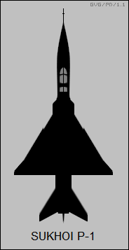 Plan-view silhouette of the Sukhoi P-1 prototype